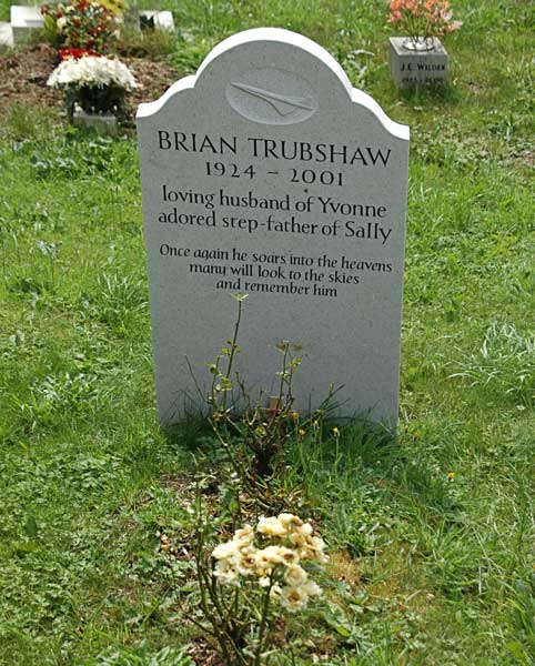 Brian Trubshaw's grave, Cherington The grave of Brian Trubshaw, the original British test pilot of the Concorde, in the graveyard of Cherington Church